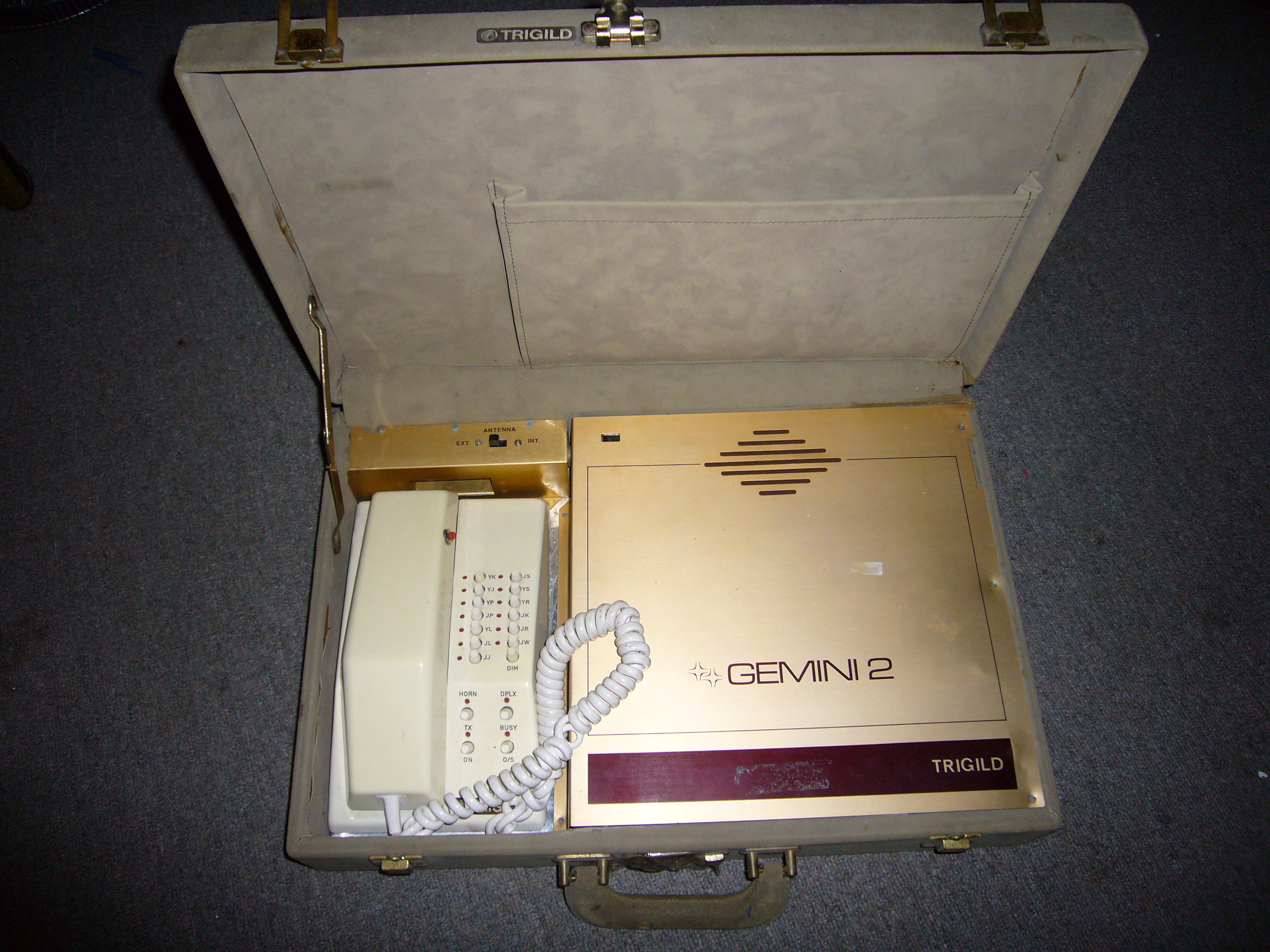 Trigild Gemini 2 (model DM1-TP13), an MTS "briefcase phone", shown inside its briefcase.